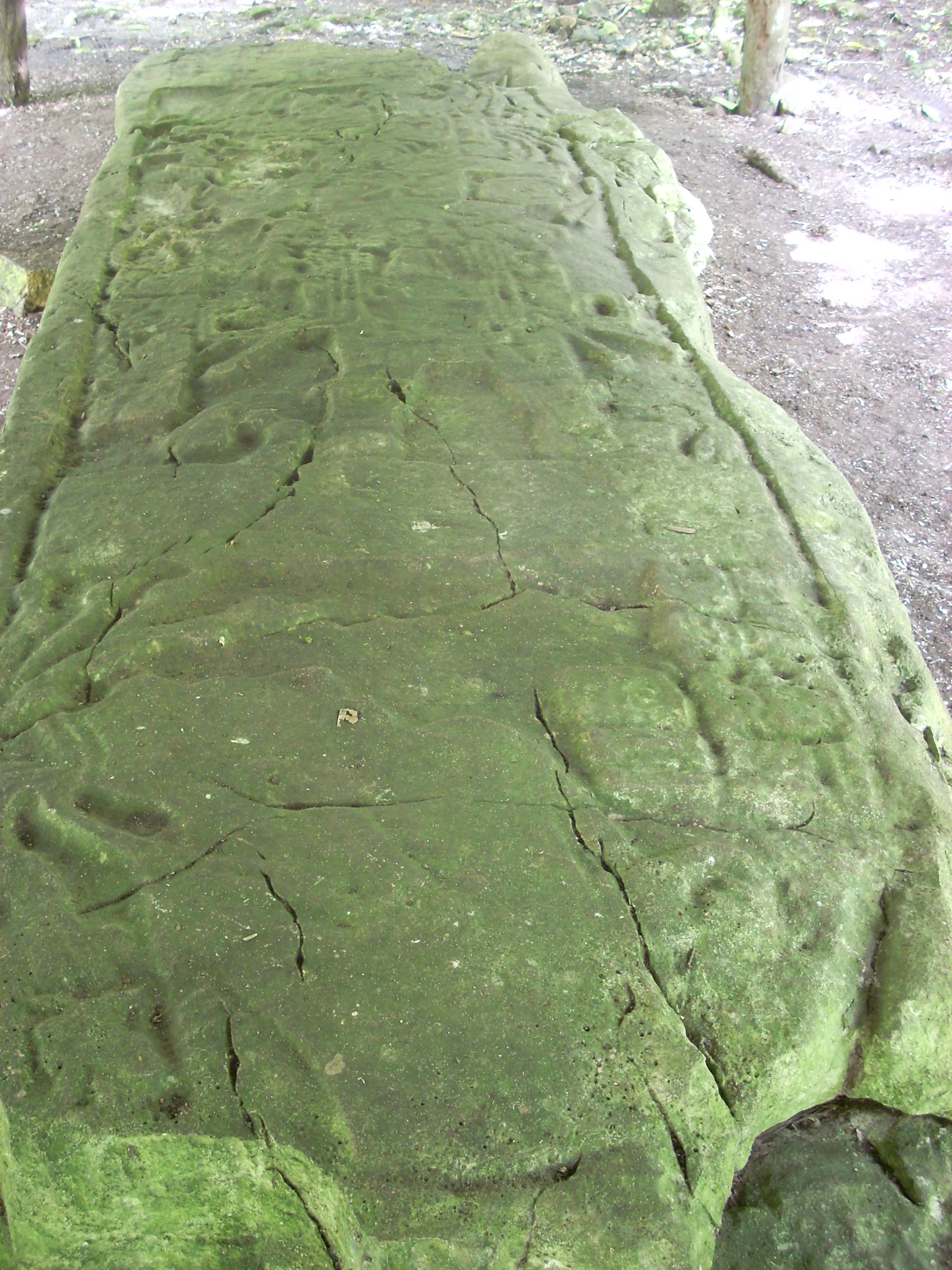 Stela 4 at Ixkun, Peten, Guatemala.